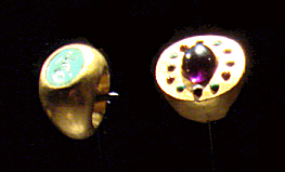 Rings from Tillia tepe. Musée Guimet. Personal photograph 2006.